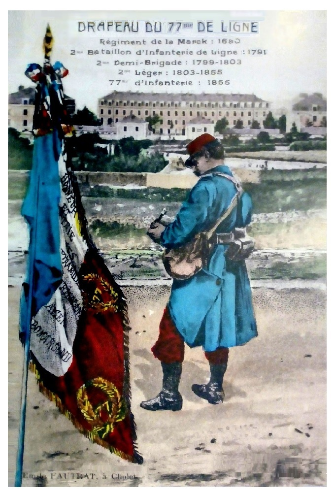 Source: Ancient postcard of Emile Fautras